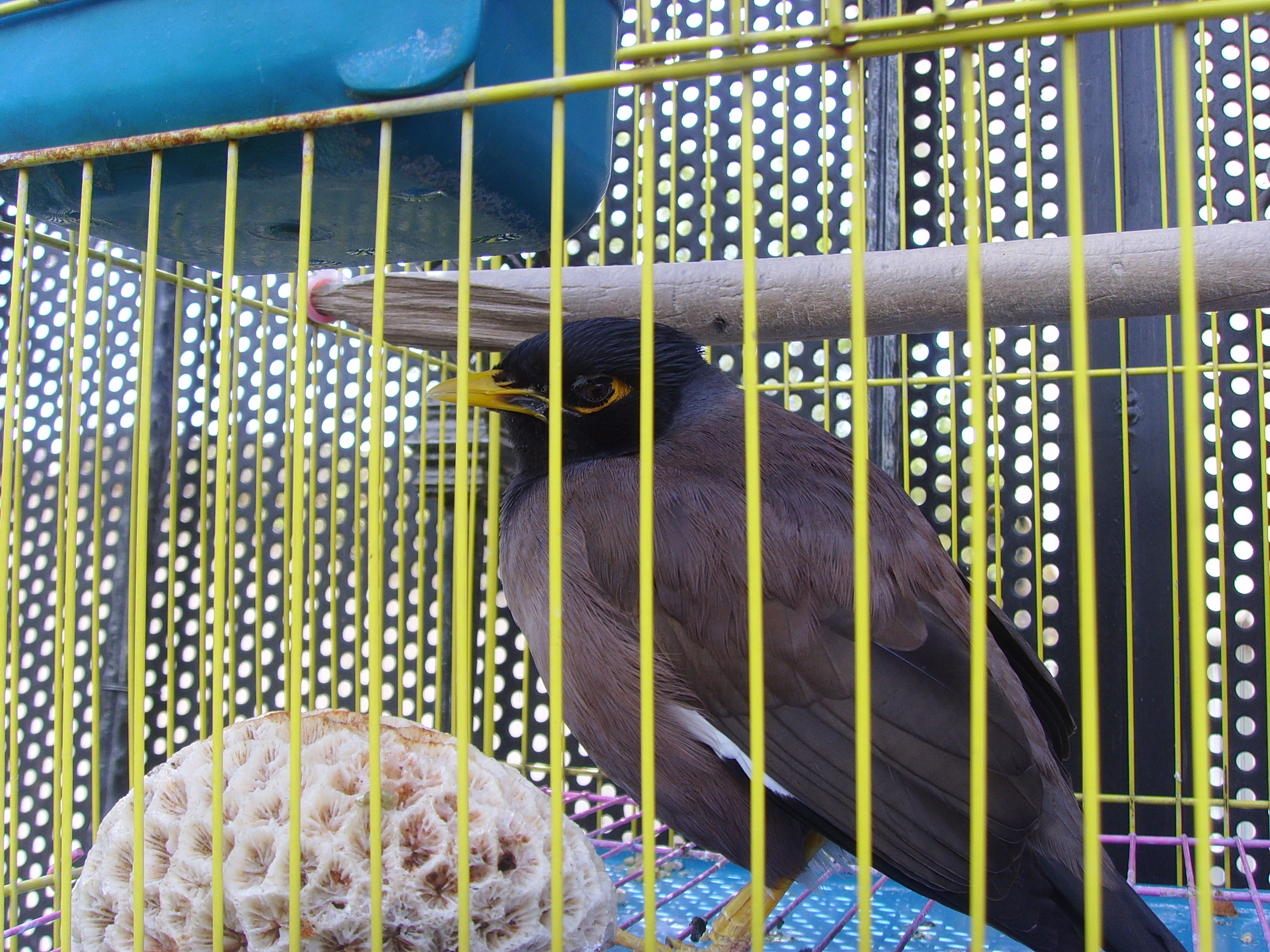 Myna Captive of speech